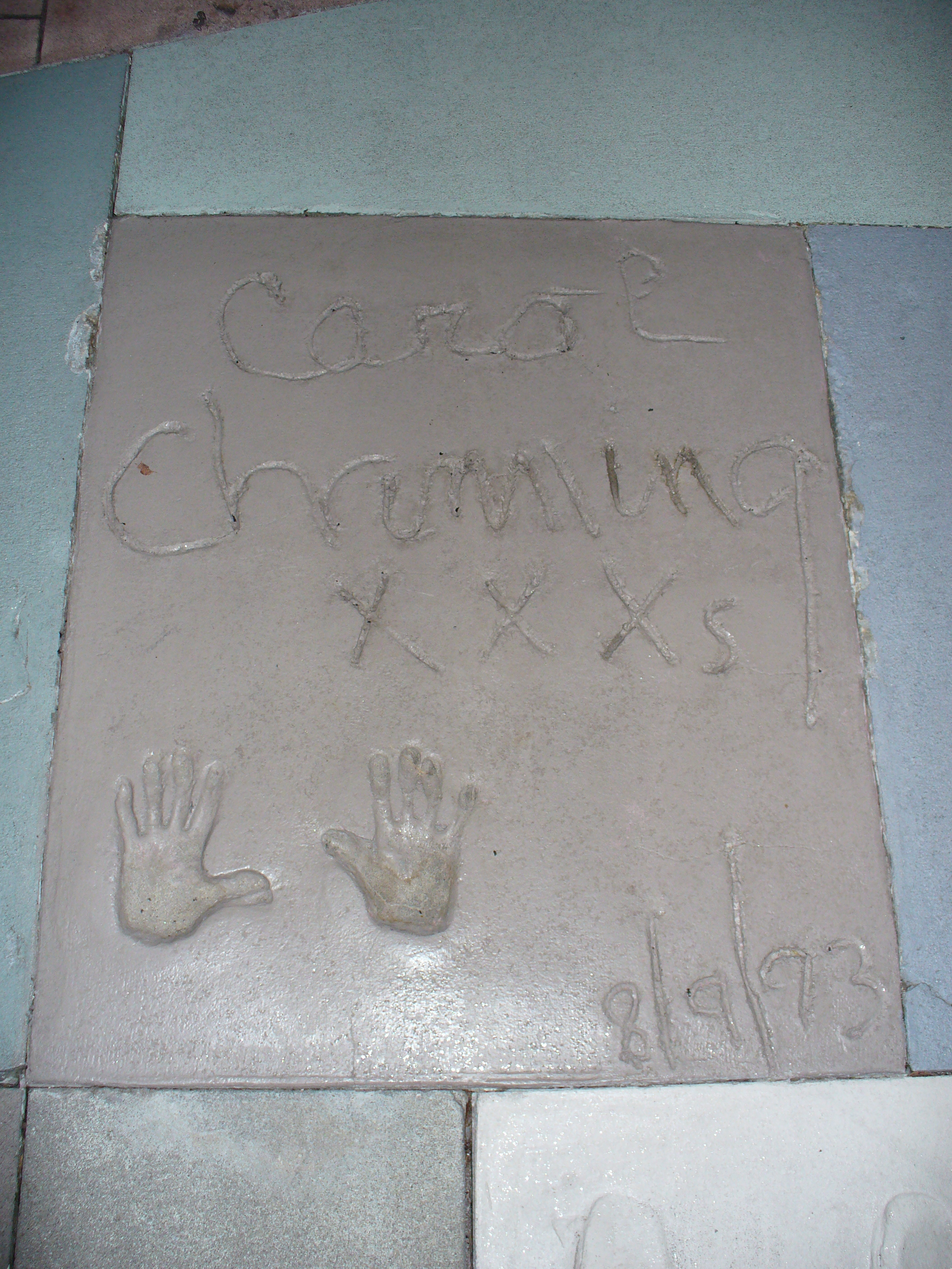 This photo depicts the handprints of Carol Channing that can be found in front of The Great Movie Ride attraction at Disney's Hollywood Studios at the Walt Disney World® Resort (Orlando, Florida).